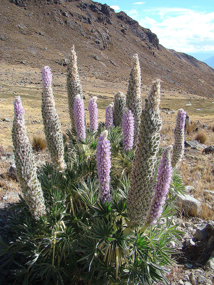 A giant lupine, from 3800 meters elevation in the Cordillera Negra of Peru. In context at